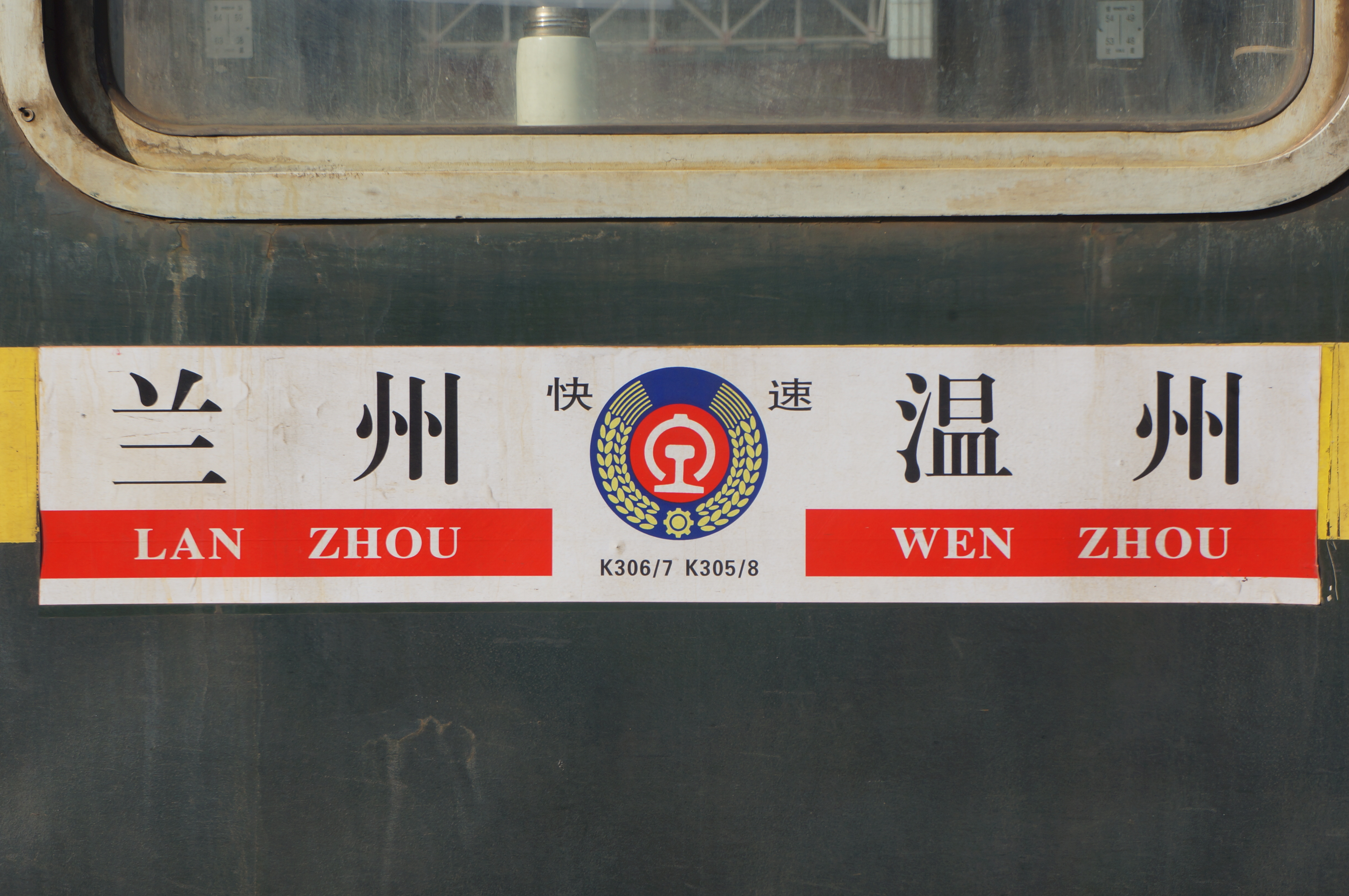 K305 6 7 8 info board in 201701.